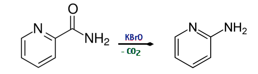 2-Amino-pyridine synthesis from reaction between picolonamide and potassium hypobromite.